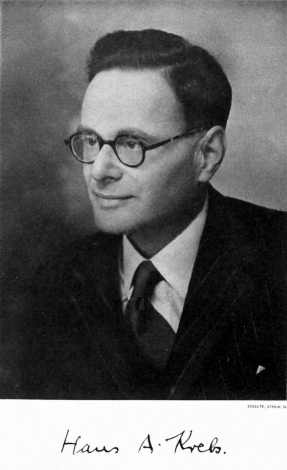 Official Nobel portrait of Hans A. Krebs with his signature.